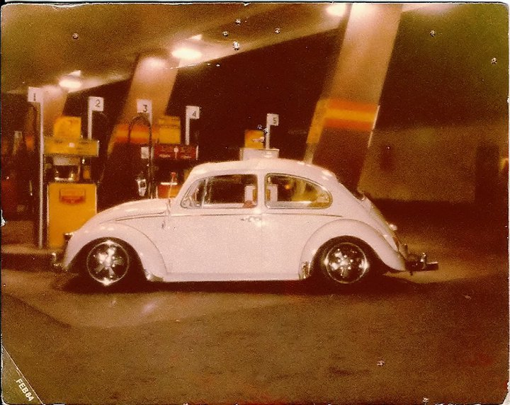 One of the first "true" Vintage Cal-Style Volkswagens built by Robert VWKidd Velis 1982 (picture taken 1983 Huntington Park, SouthEast L.A.) Other information NO